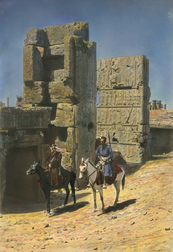 Persepolis ,Iran